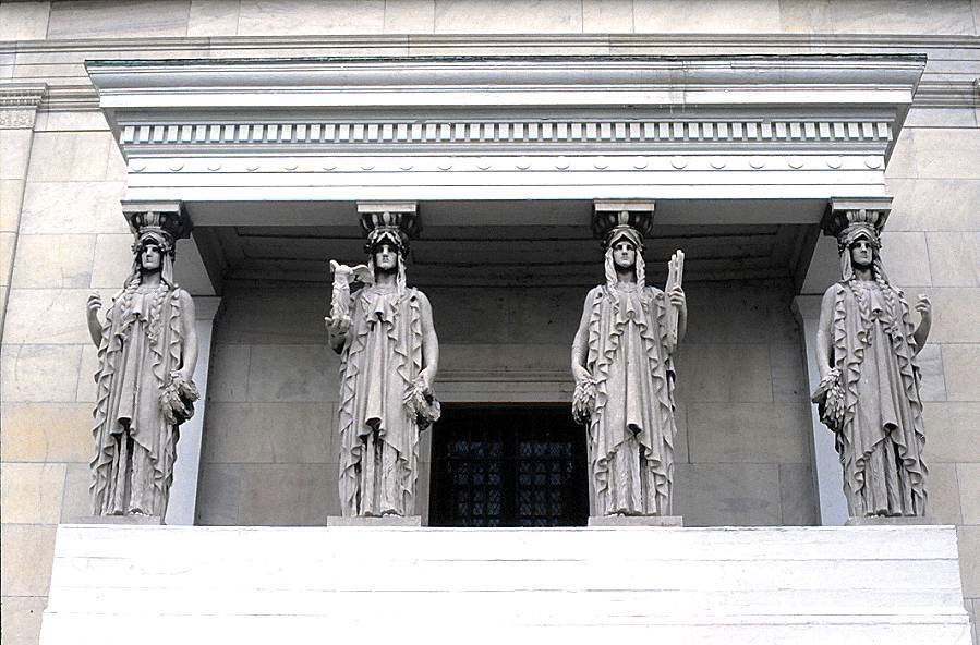 a photo of St. Gaudens, caryatids in Buffalo NY